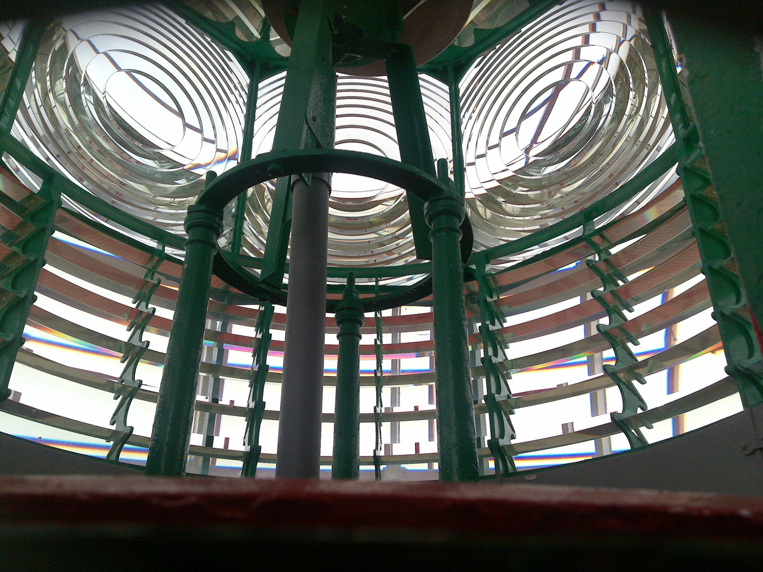 Lindesnes fyr (lighthouse), Norway. prism details.